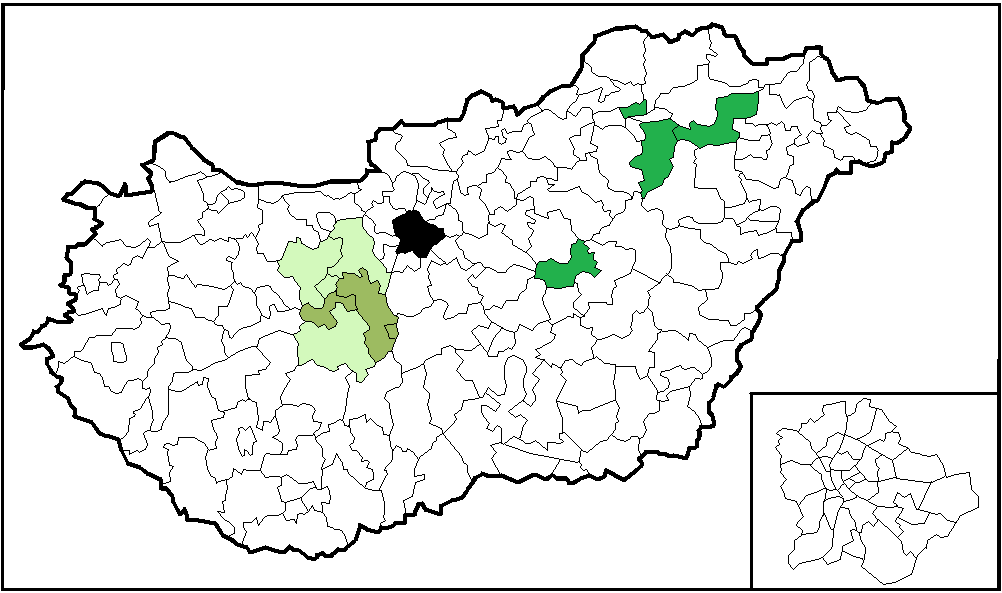 Candidates by minor parties on the 1994 Hungarian parliamentary election: The Hungarian Market Party ██ = Candidate accepted by the Local Elections Comitee, territorial list accepted by the Local Elections Comitee ██ = Candidate accepted by the Local Elections Comitee, No territorial list ██ = No single-seat candidate, territorial list accepted by the Local Elections Comitee